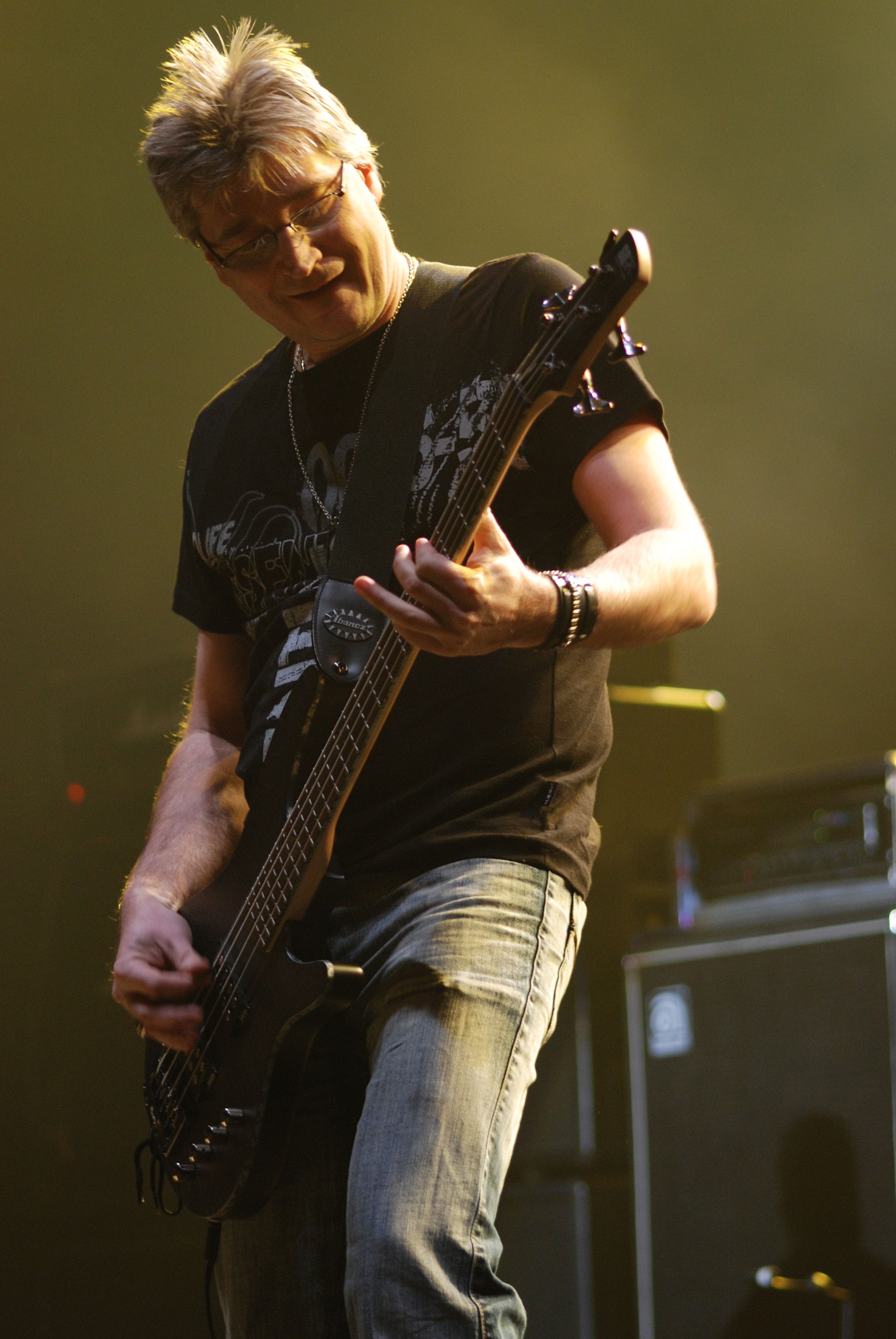 Peter Thorslund from Artillery during Metalmania 2008 festival